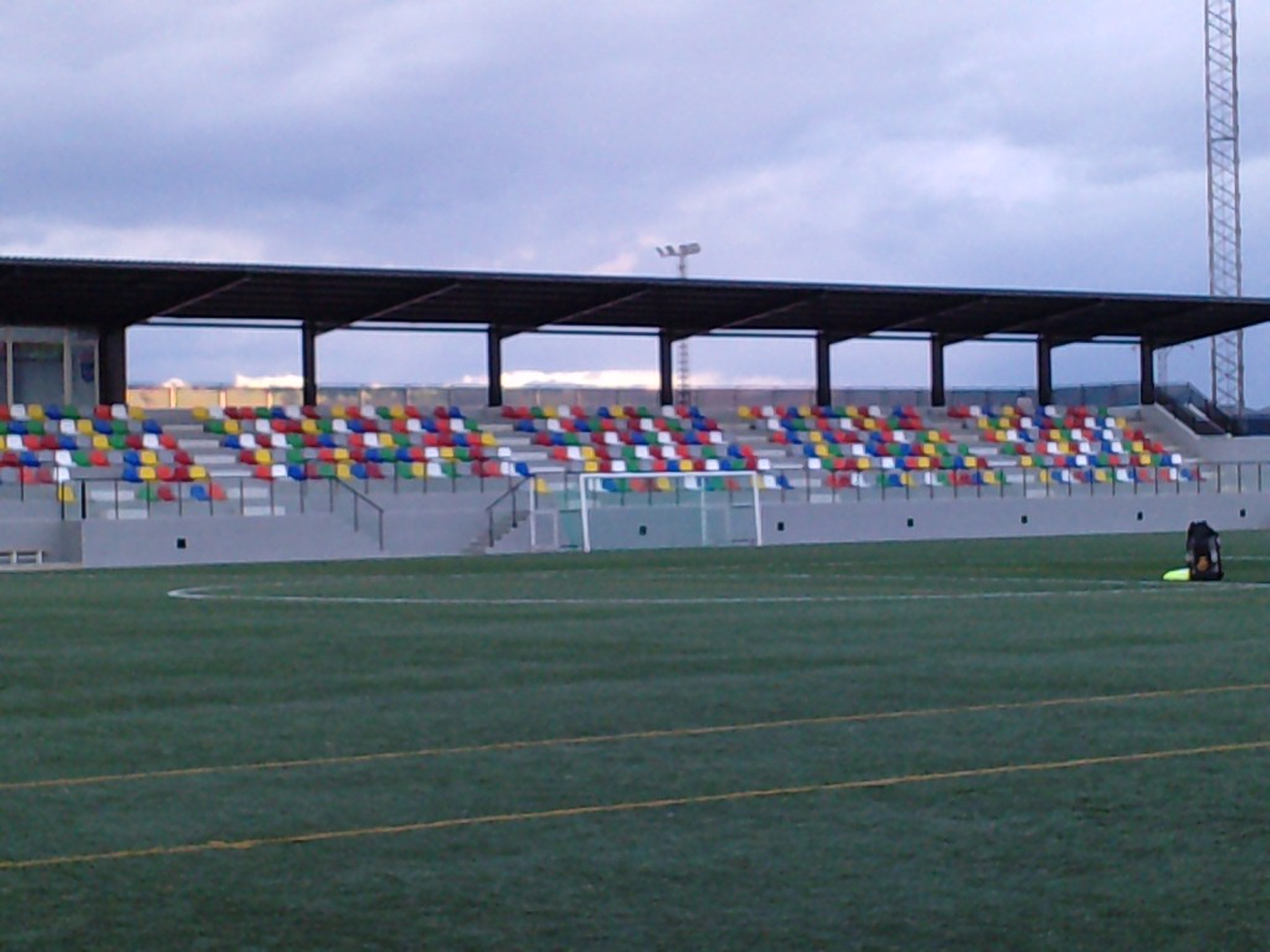 Estadio Villa de Beniel